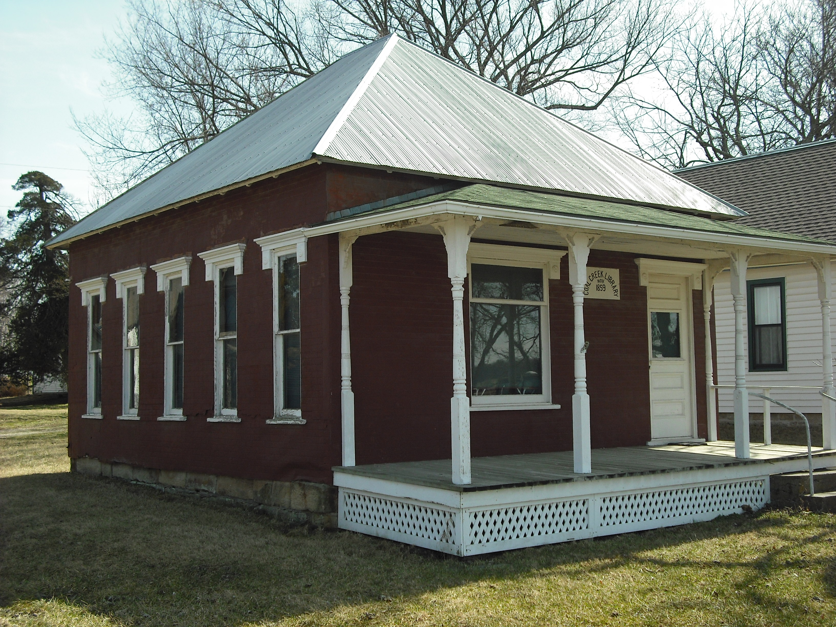 A better picture of the Coal Creek Library in Vinland, Kansas. On NRHP.